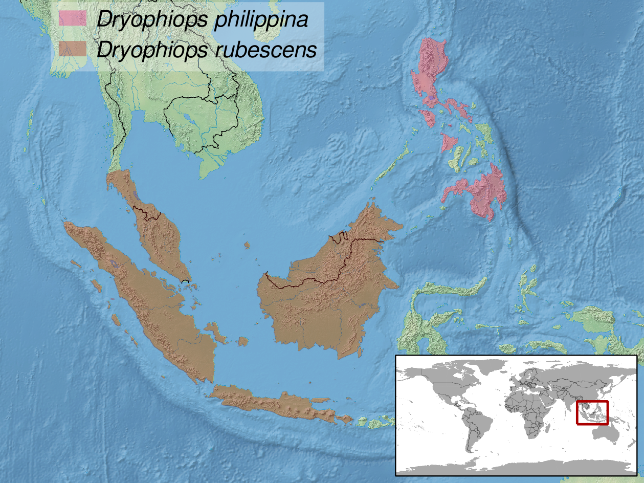 geographic distribution of the genus Dryophiops. Included species for RDB: Dryophiops philippina (Native: Philippines) Dryophiops rubescens (Native: Brunei Darussalam; Indonesia (Jawa, Kalimantan, Sumatera); Malaysia (Sabah, Sarawak); Philippines; Singapore; Thailand)